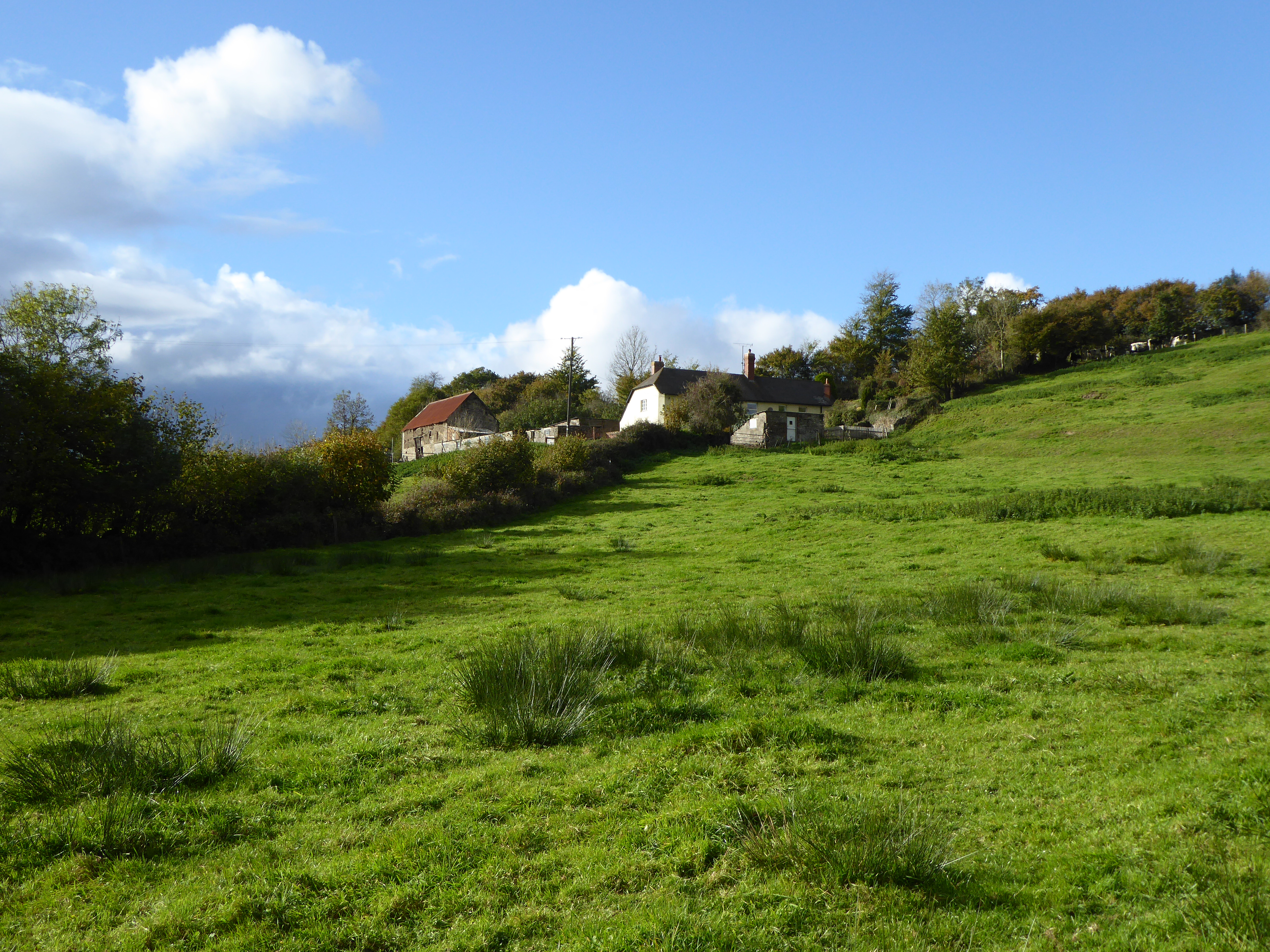 Tower Farm in the parish of Swimbridge, Devon, viewed from south-east. It is believed to occupy the site of Ernsborough, an historic mansion house, of which only a tower was remaining in 1773 (according to Lysons, Daniel & Lysons, Samuel, Magna Britannia, Vol.6, Devonshire, London, 1822) hence the name of the present farm.